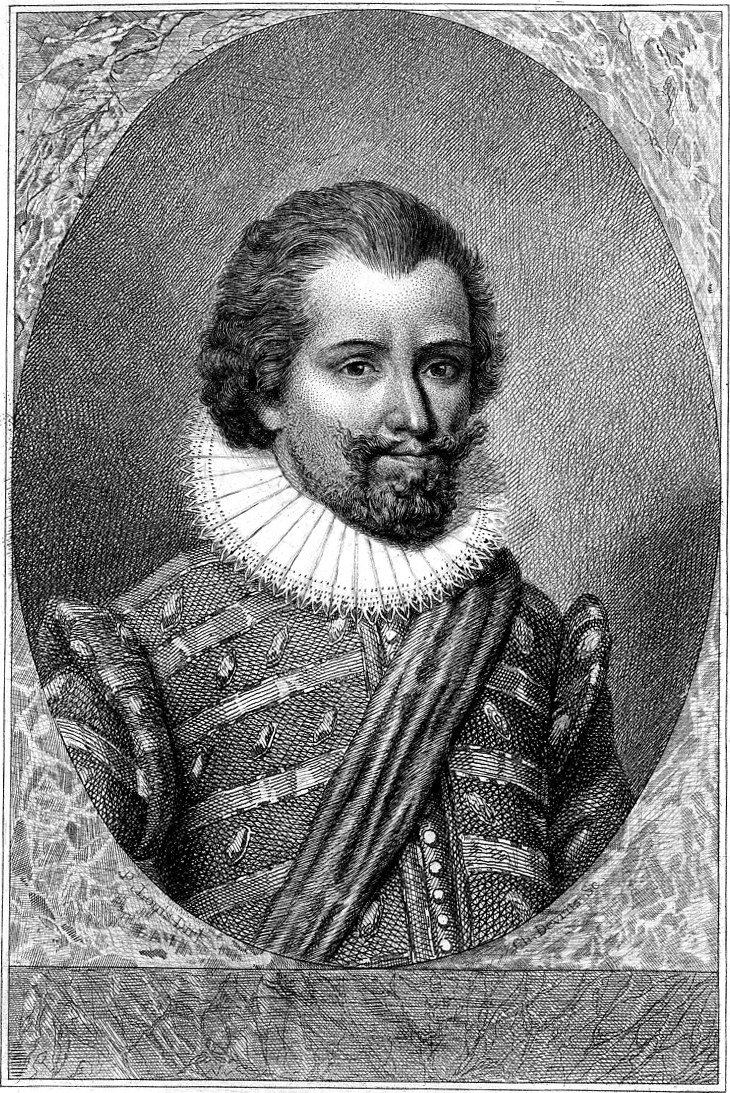 Thomas Sonnet de Courval (1577-1627), French satyrical poet.